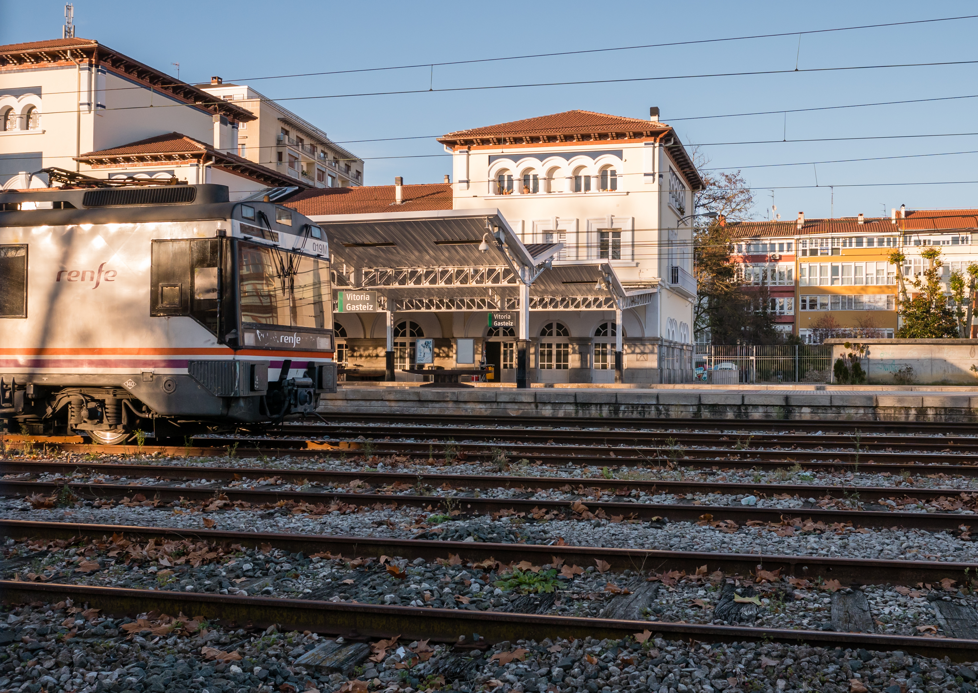 Railway station of Vitoria-Gasteiz. Basque Country, Spain